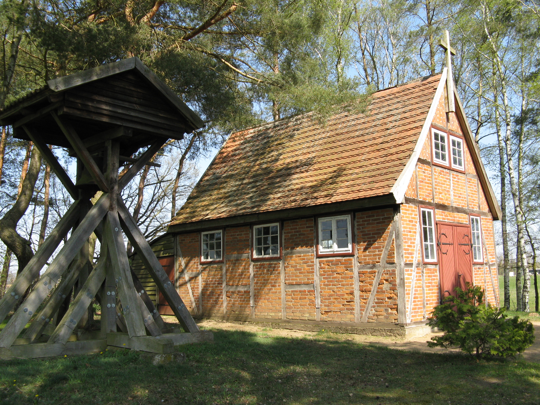 Chapel in Göhren, district Ludwigslust-Parchim, Mecklenburg-Vorpommern, Germany